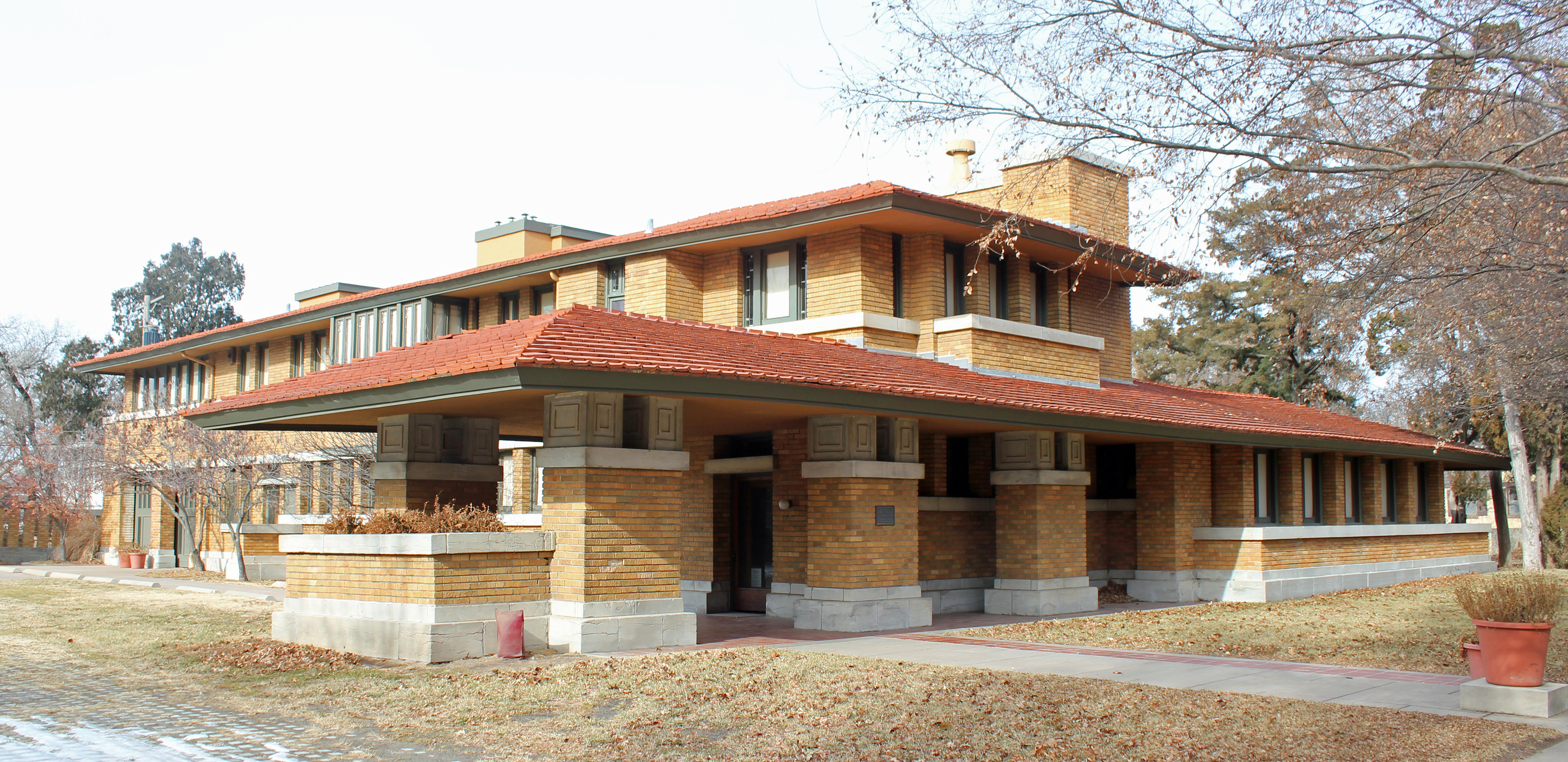 The Allen-Lambe House, located at 255 North Roosevelt Street in Wichita, Kansas.